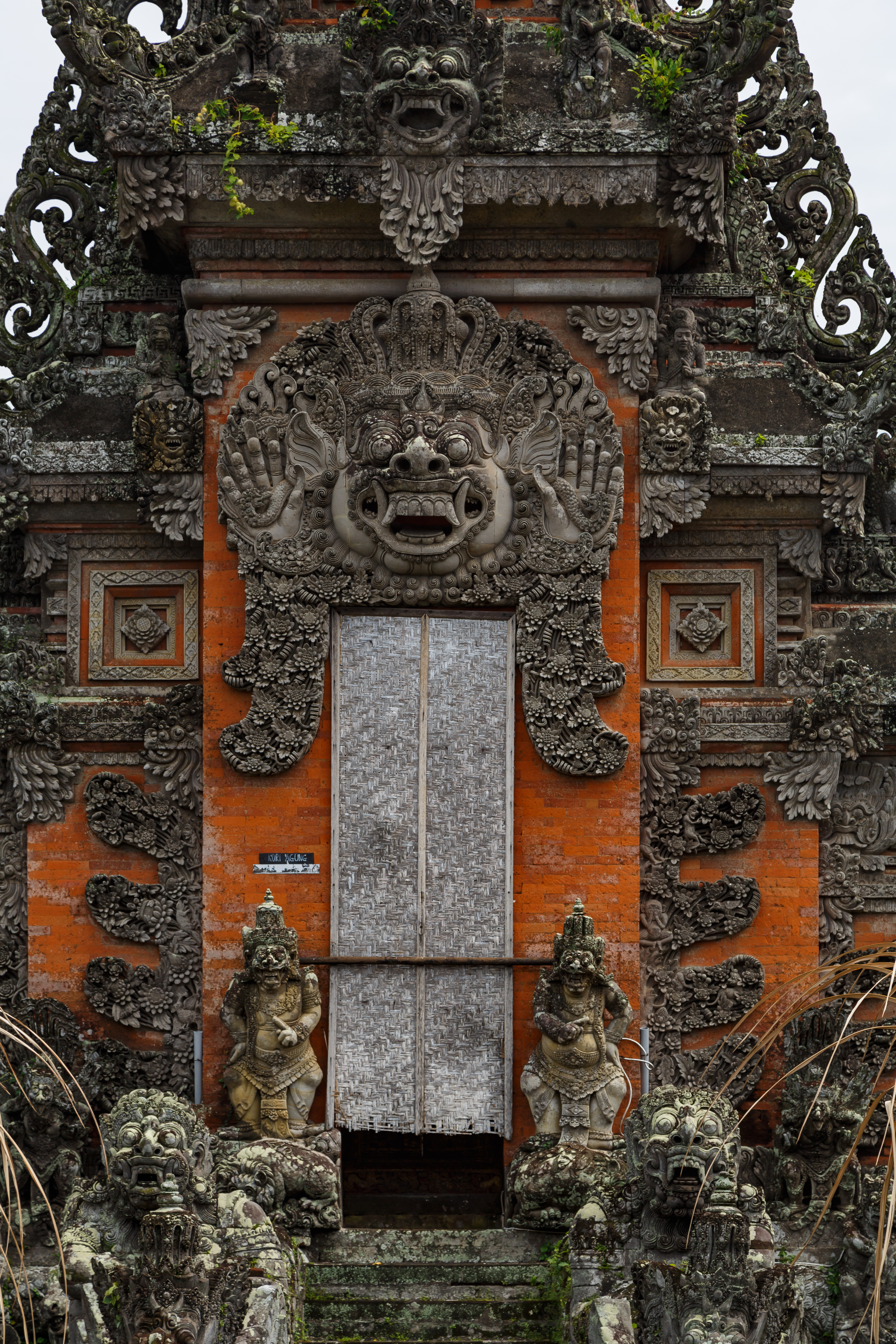 Singapadu, Gianyar, Bali, Indonesia: Detail view of Pura Puseh Desa, a balinese hindu temple compound.